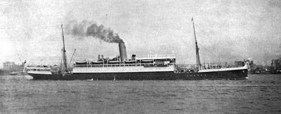 The Hamburg-America Cruising Steamer Kronprinzessin Cecilie (1905)